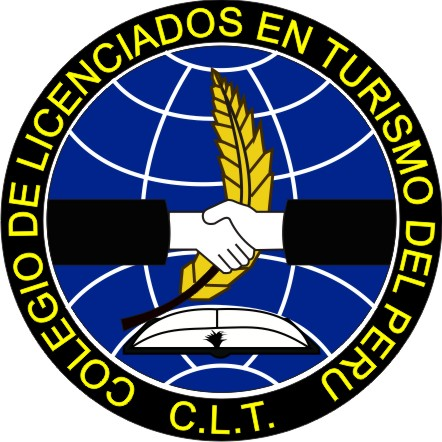 Colegio de Licenciados en Turismo del Perú